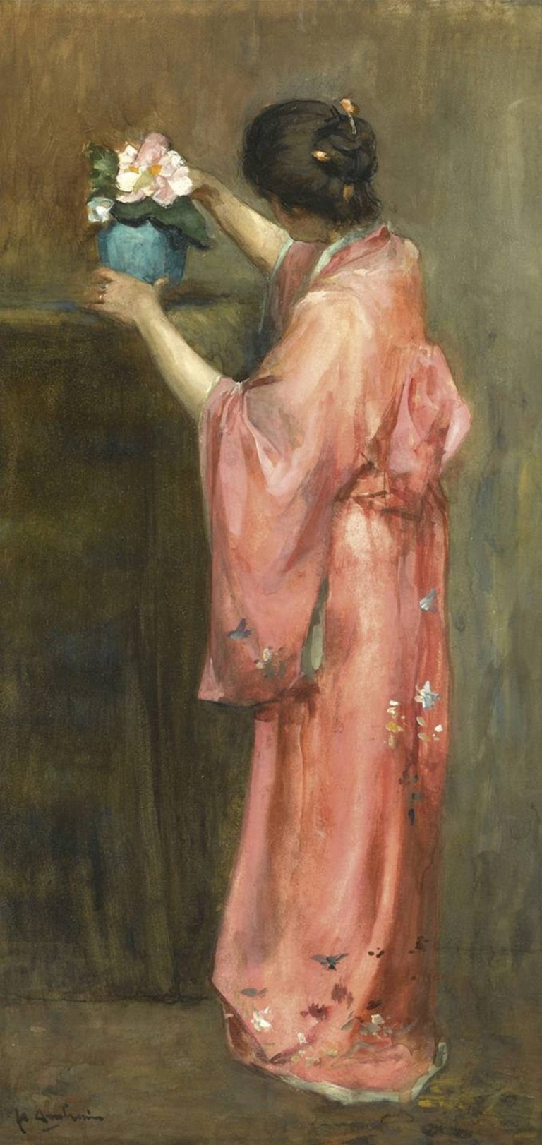 A Girl in Kimono Arranging Flowers